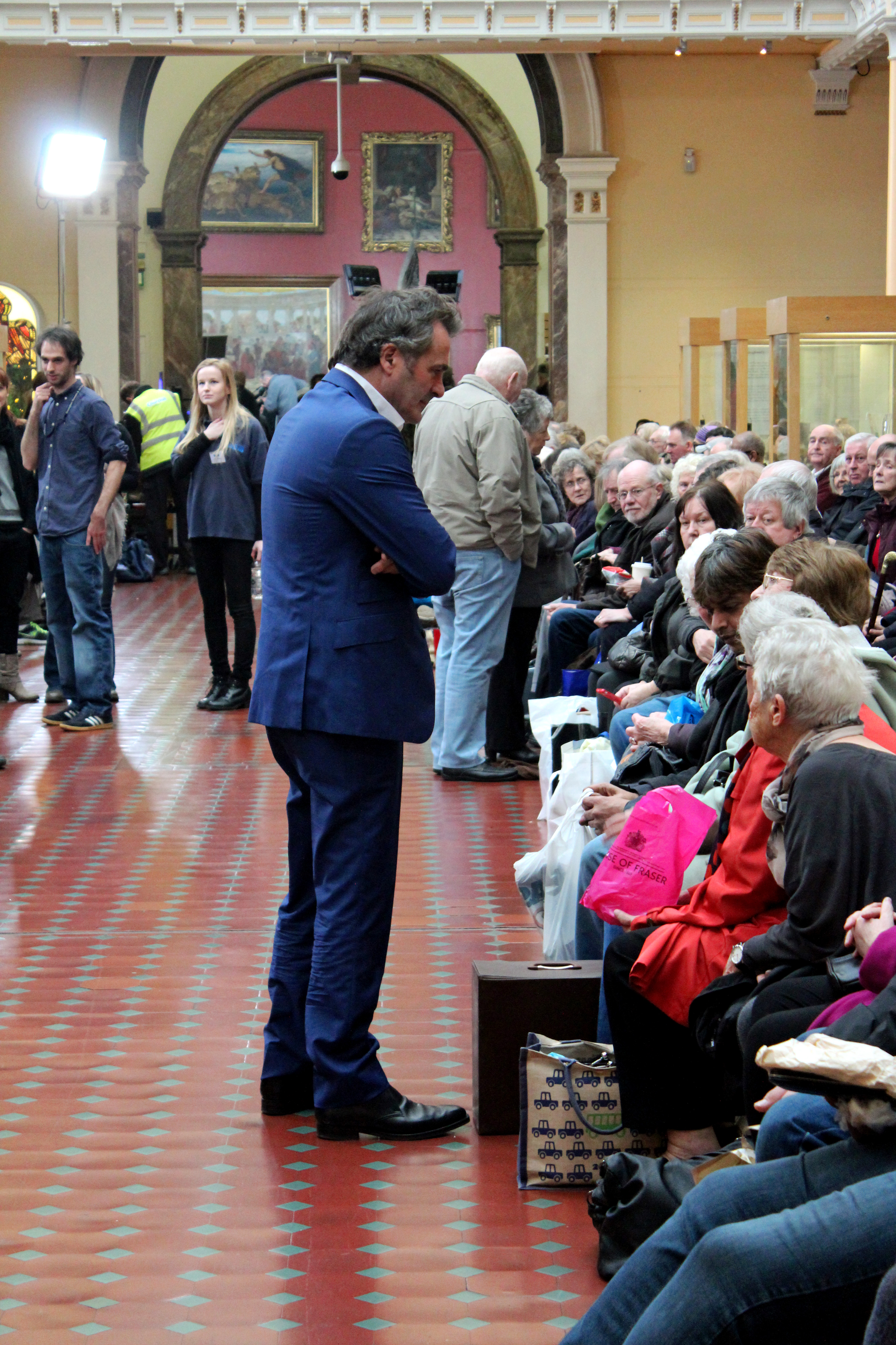 Paul Martin, presenter of Flog It!, talks to visitors at a recording of Flog It! at Birmingham Museum and Art Gallery, Birmingham, UK, on 16th January 2014